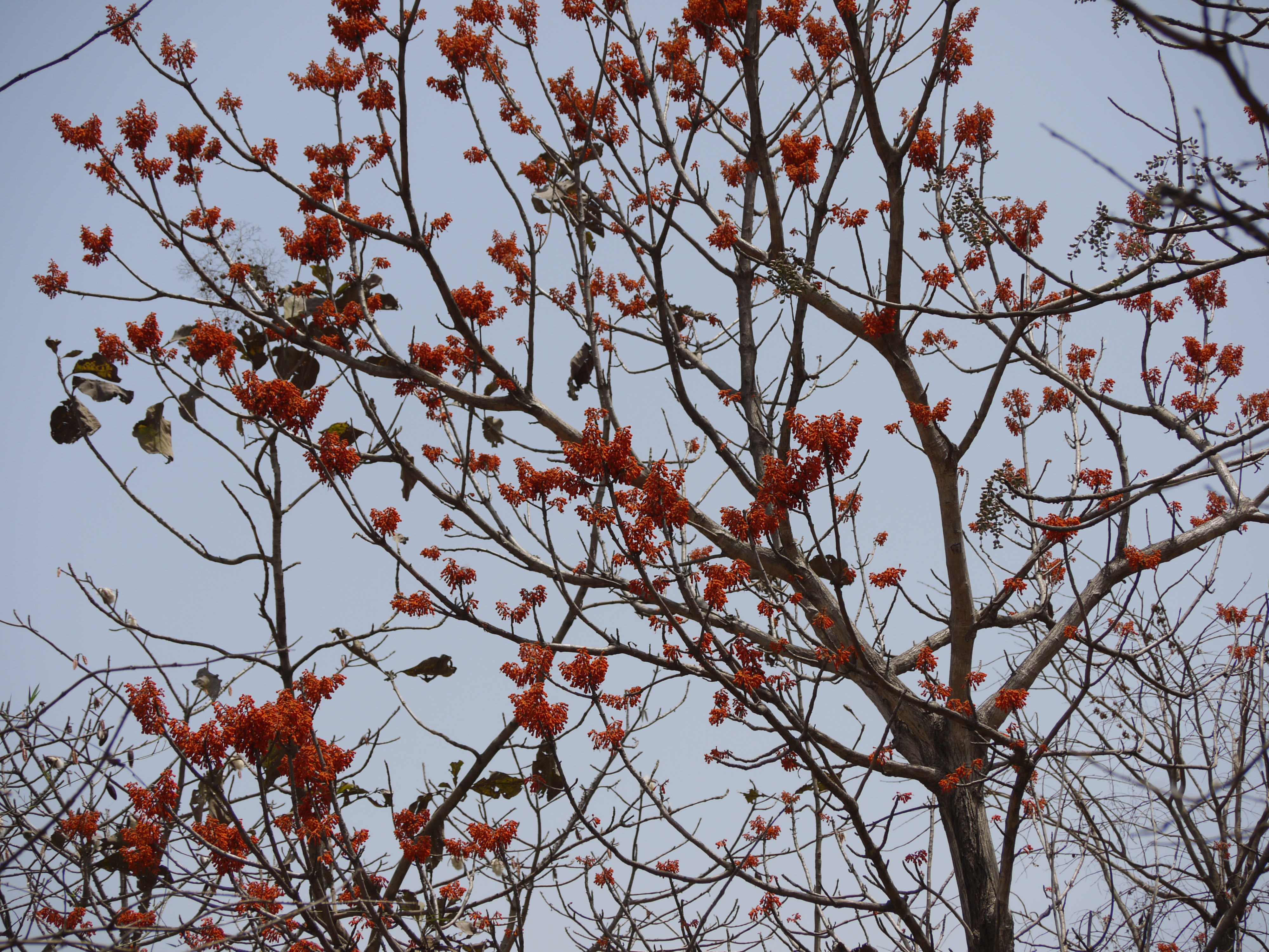 Sterculiaceae (Cacao family) » Firmiana colorata fer-mee-AY-nuh -- named for Joseph von Firmian, Imperial Governor of Lombardy kol-oh-RAY-tuh or kol-oh-RAH-tuh -- meaning, colored commonly known as: bonfire tree, buttressed parasol tree, colored sterculia, Indian almond, scarlet sterculia • Assamese: jari-udal • Bengali: মূলা mula • Hindi: bodula, samari, walena • Kannada: ಬಿಳಿಸುಲಿಗೆ bilisulige • Konkani, in Goa: खोलथे kholthe • Malayalam: മലബരത്തി malabaraththi • Marathi: कौशी kaushi • Miri: kath-udal • Tamil: மலப்பருத்தி malapparutti Native to: India, Myanmar, Thailand, Sri Lanka References: Flowers of India • Top Tropicals • Dave's Garden